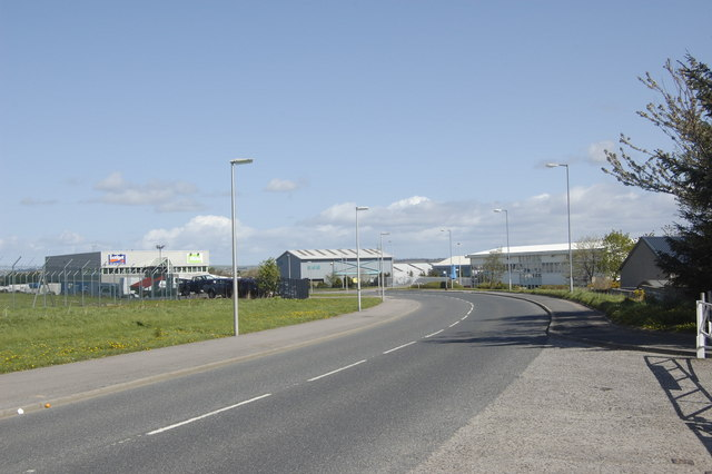 Wellheads Drive, Stoneywood, Aberdeen. An important link between the airport and industrial areas in Dyce: here we see it curving around the southern end of the main "34" runway. For the meaning of 34